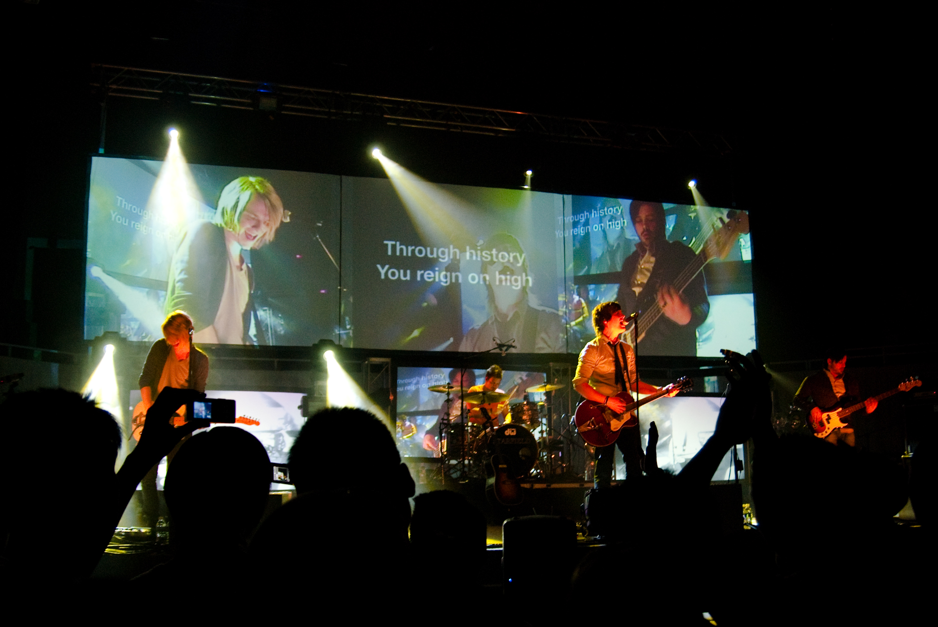 Canadian Christian rock band Starfield performing at a concert